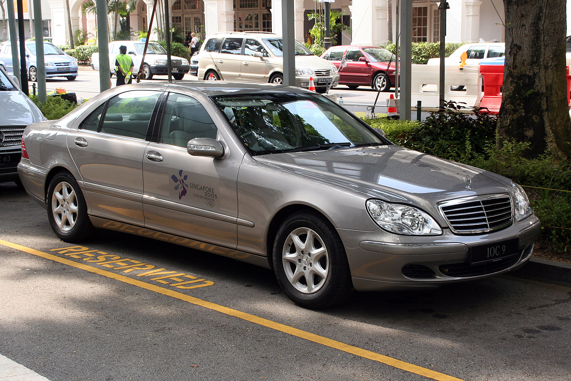 Official car sponsored by Mercedes-Benz for the 117th IOC Session in Singapore. ; Location: Raffles City, Singapore